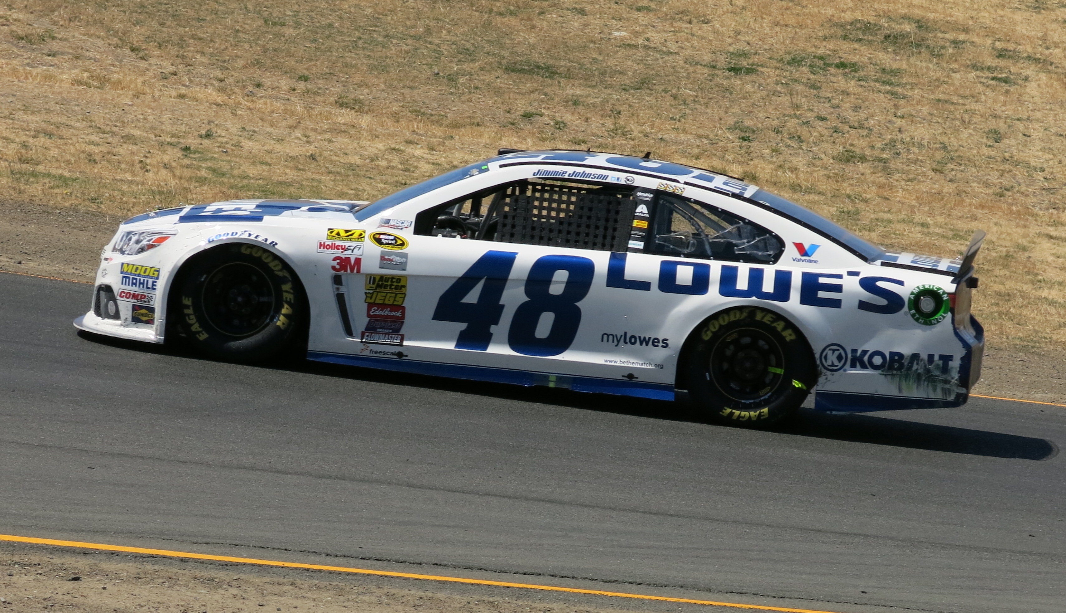 Jimmie Johnson's No. 48 Lowe's Chevrolet at Sonoma Raceway in 2014